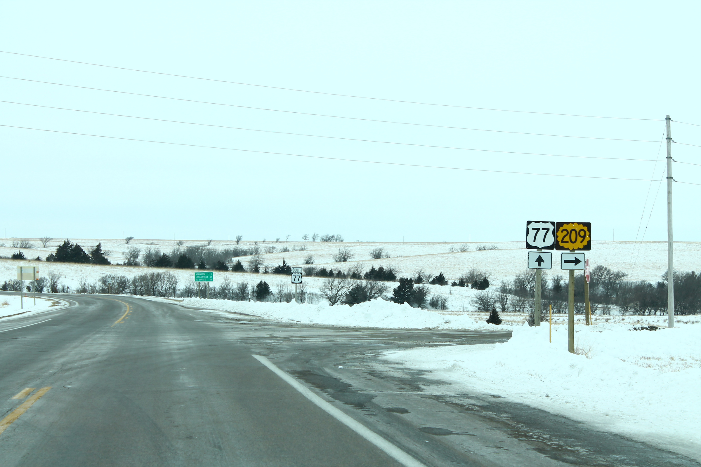 US77sRoad-KS209signs